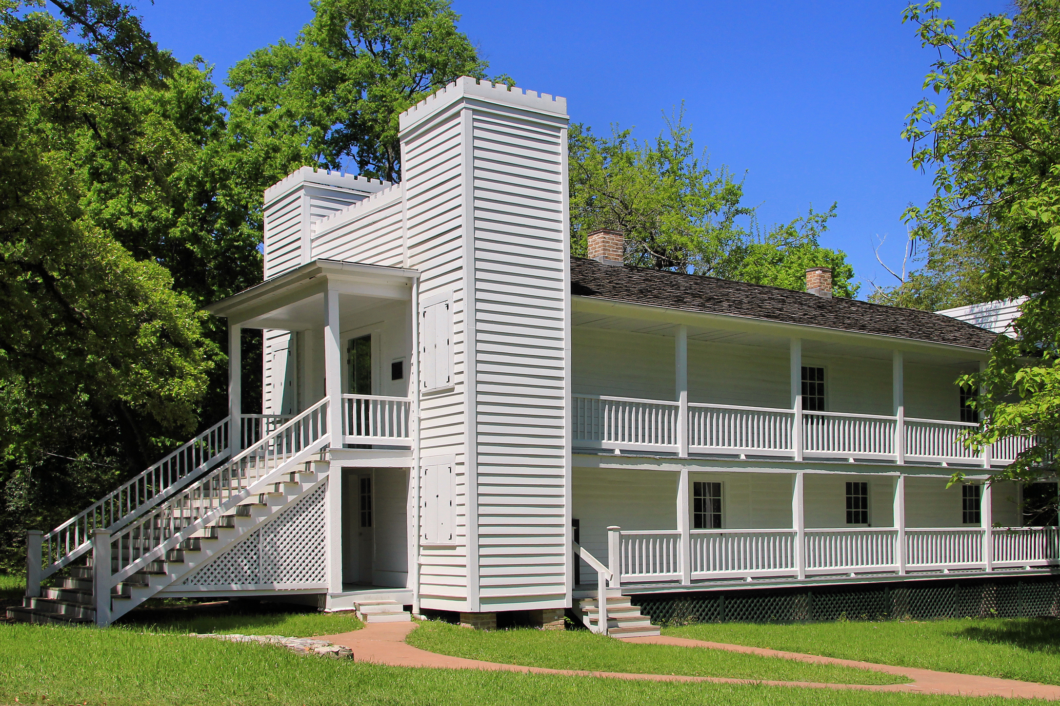 The Steamboat House at the Sam Houston Memorial Museum Complex in Huntsville, Texas, United States. The house was designated a Recorded Texas Historic Landmark in 1964. It was rented by Sam and Margaret Houston after the Texas Secession Convention removed him as Governor of the state of Texas for refusing to swear a loyalty oath to the Confederacy. He died in this house in 1863.